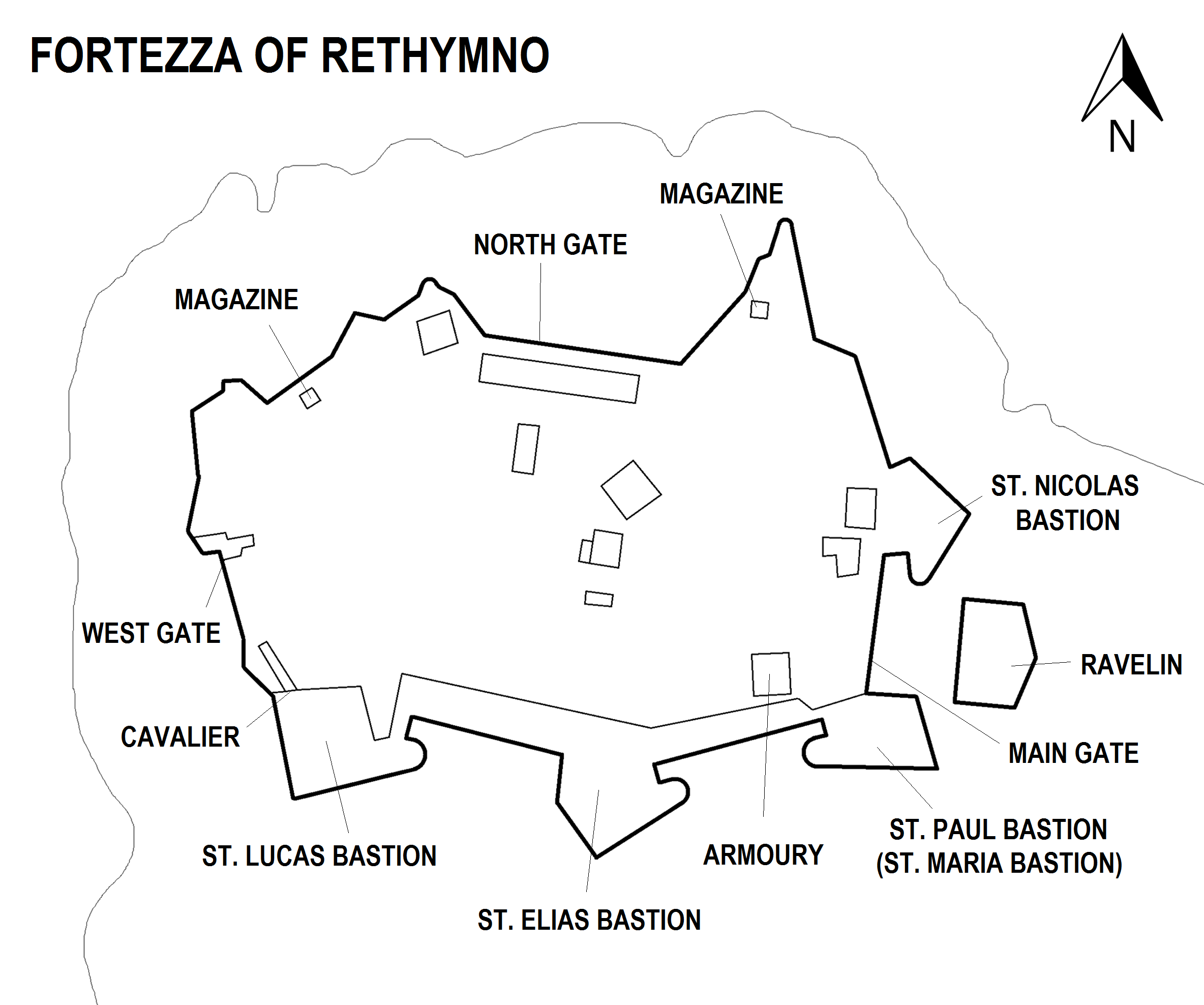 Map of the Fortezza of Rethymno in Crete, Greece. Only the fortifications and military buildings are labelled.